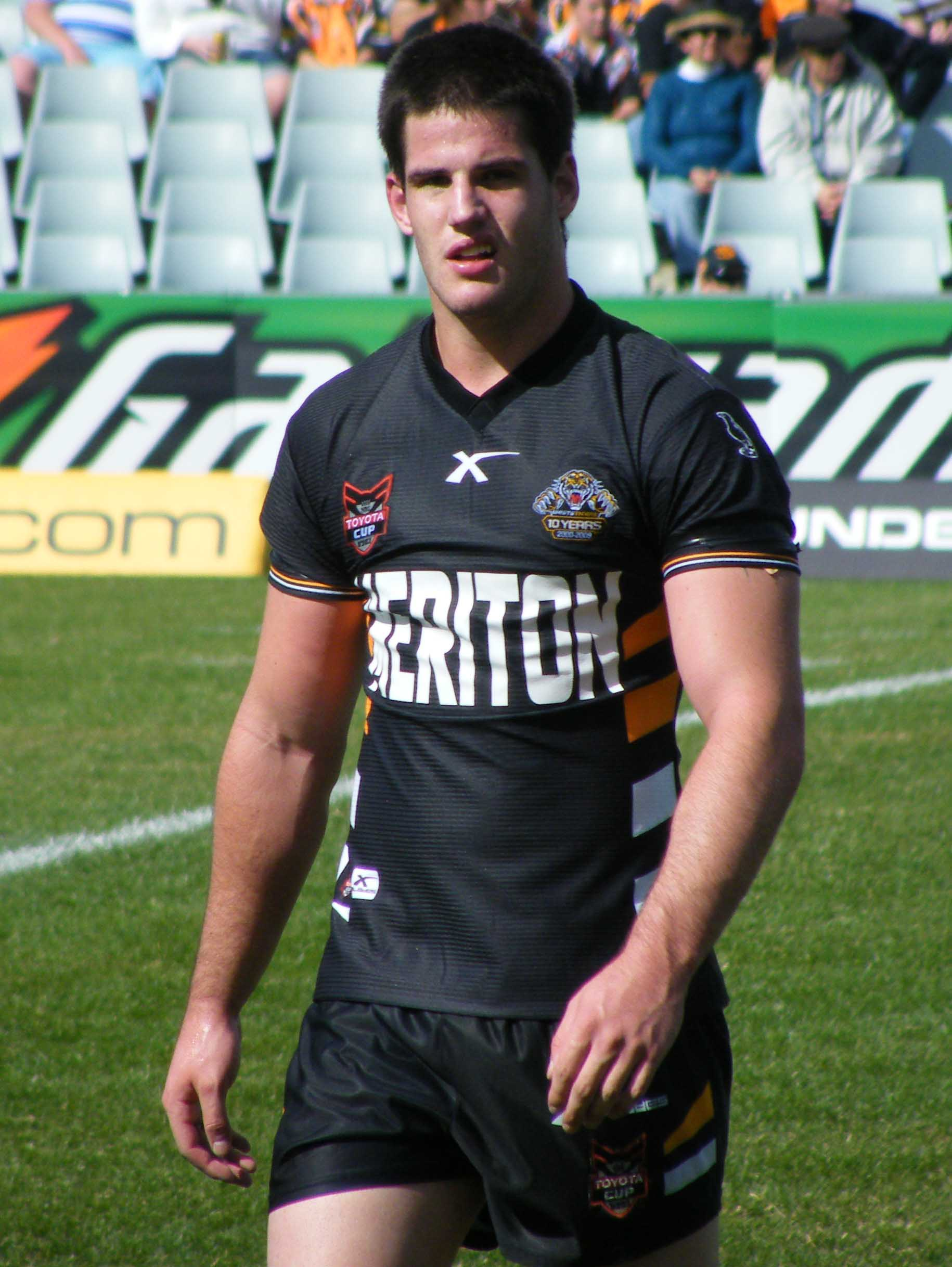 Simon Dwyer of the Wests Tigers Under 20's